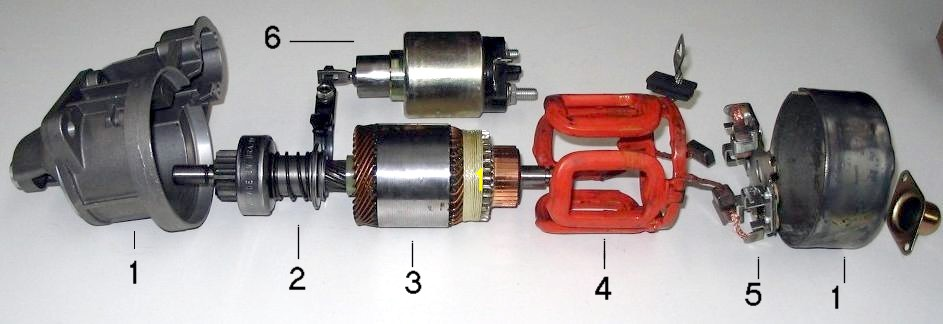 Exploded diagram of a starter motor Main Housing (yoke) Overrunning clutch Armature (rotor) Field coils Brushes Solenoid